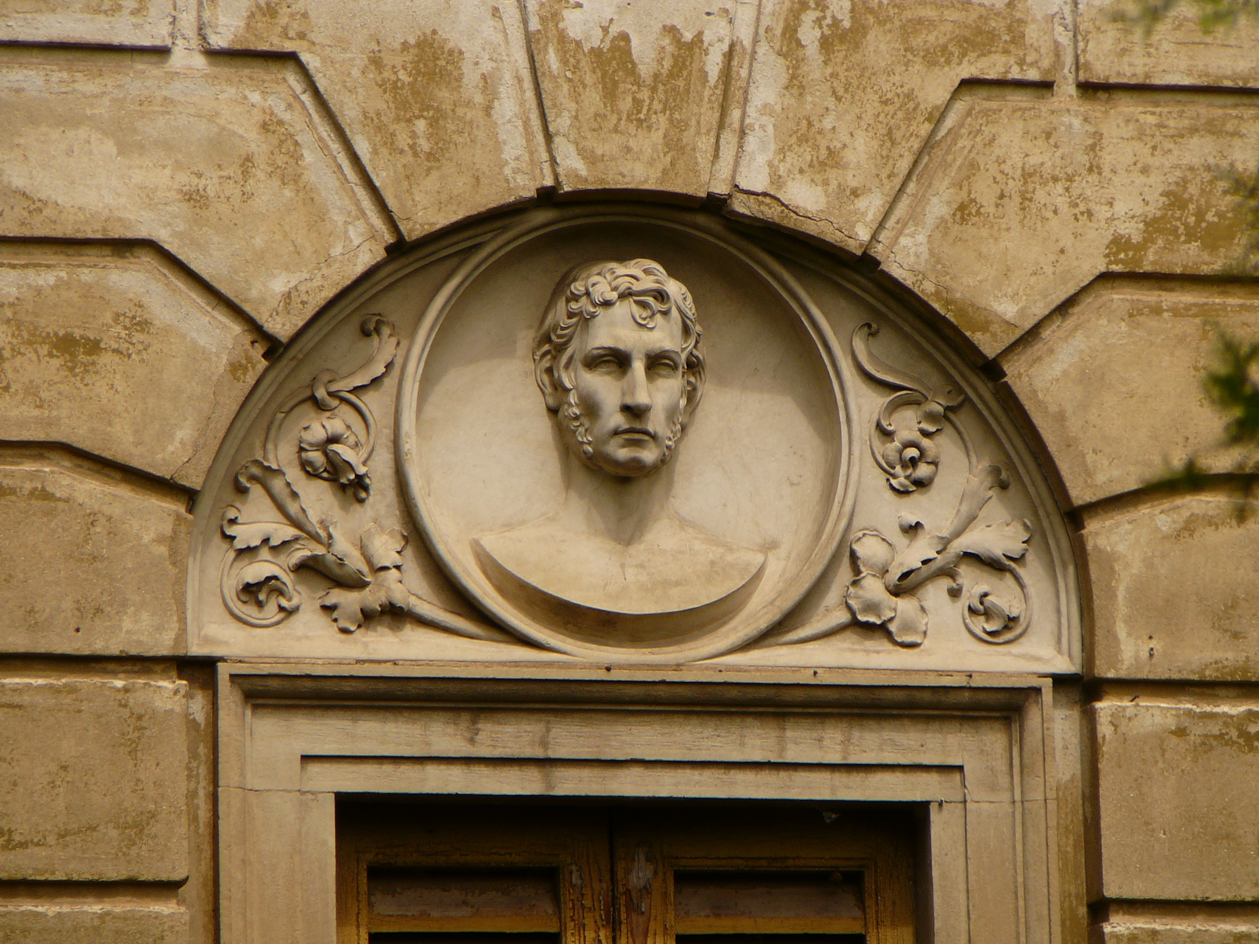 ritratto di famiglia 1